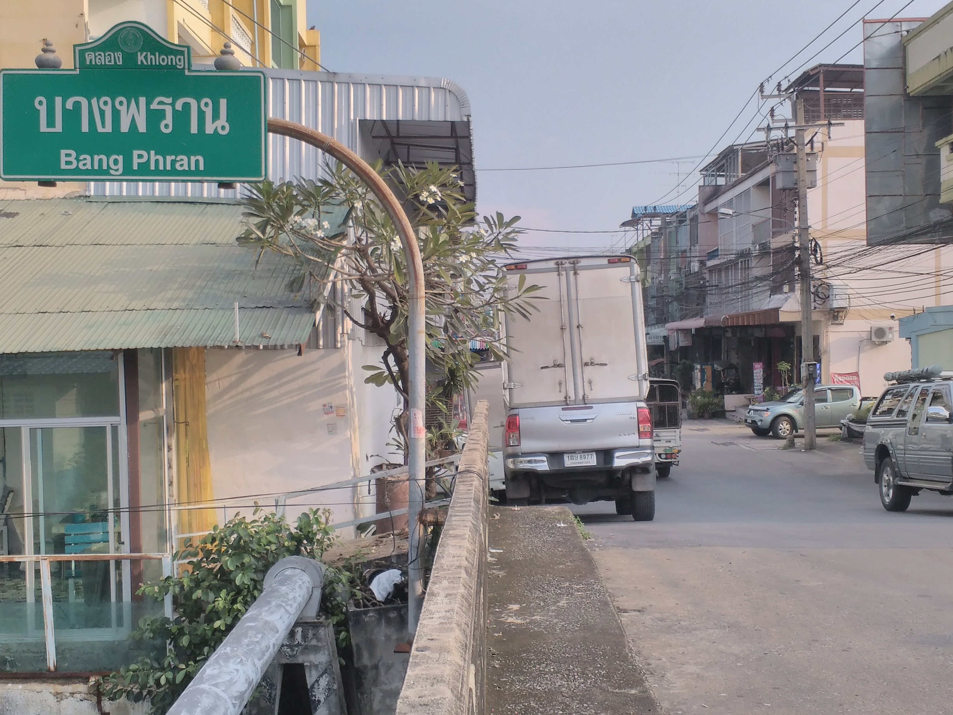 BangBon Bangkok 28.10.2017